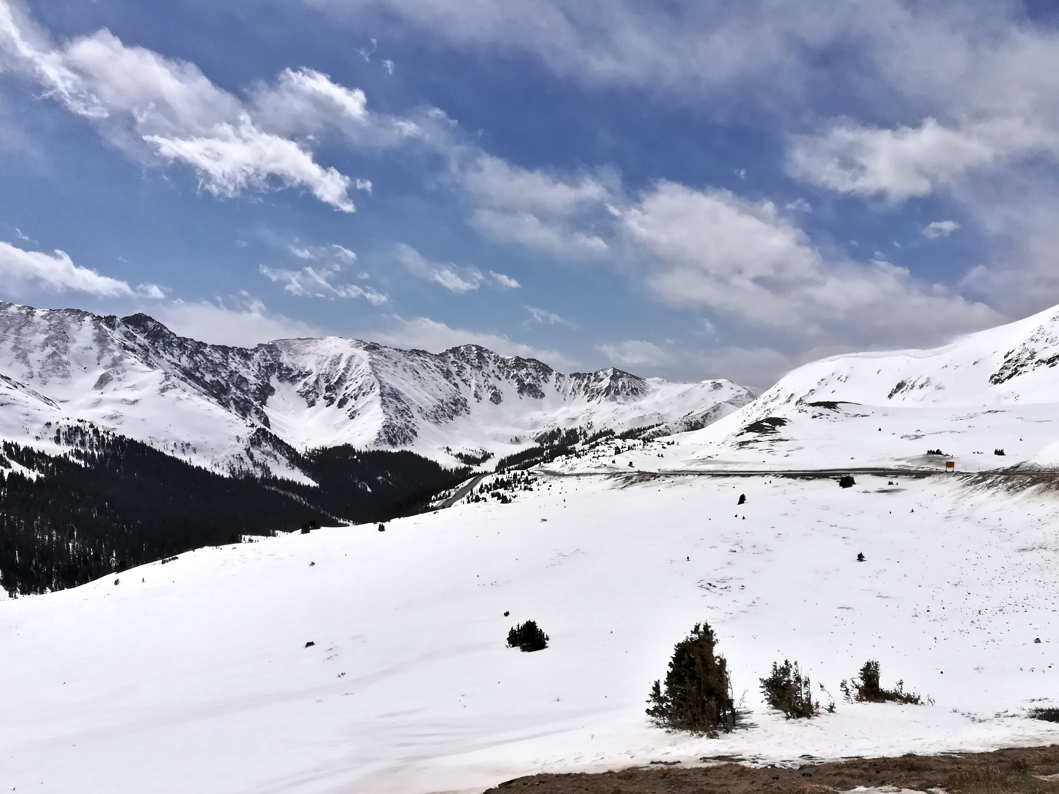 Loveland Pass